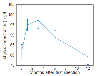 Secretory anti-aberrant-lactobacillus antibody (sIgA) concentration (arithmetic mean and standard error) in the vaginal secretion of 95 women vaccinated with SolcoTrichovac (Rüttgers 1988).